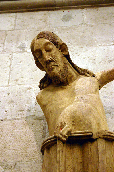 Torso of the Saint Georg Crucifix, Cologne, Germany, Museum Schnütgen